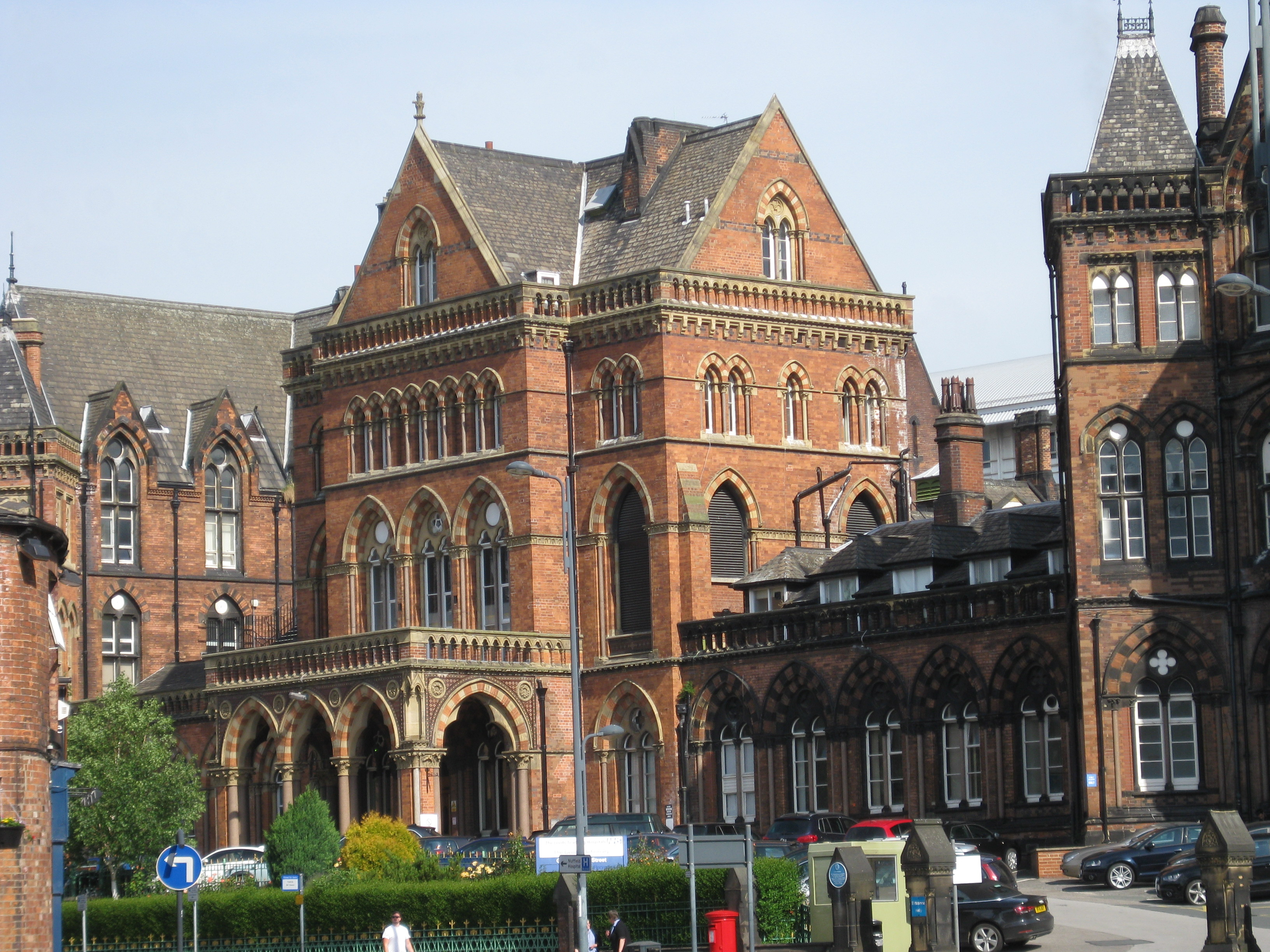 Leeds General Infirmary, Portland Street entrance, old buildings